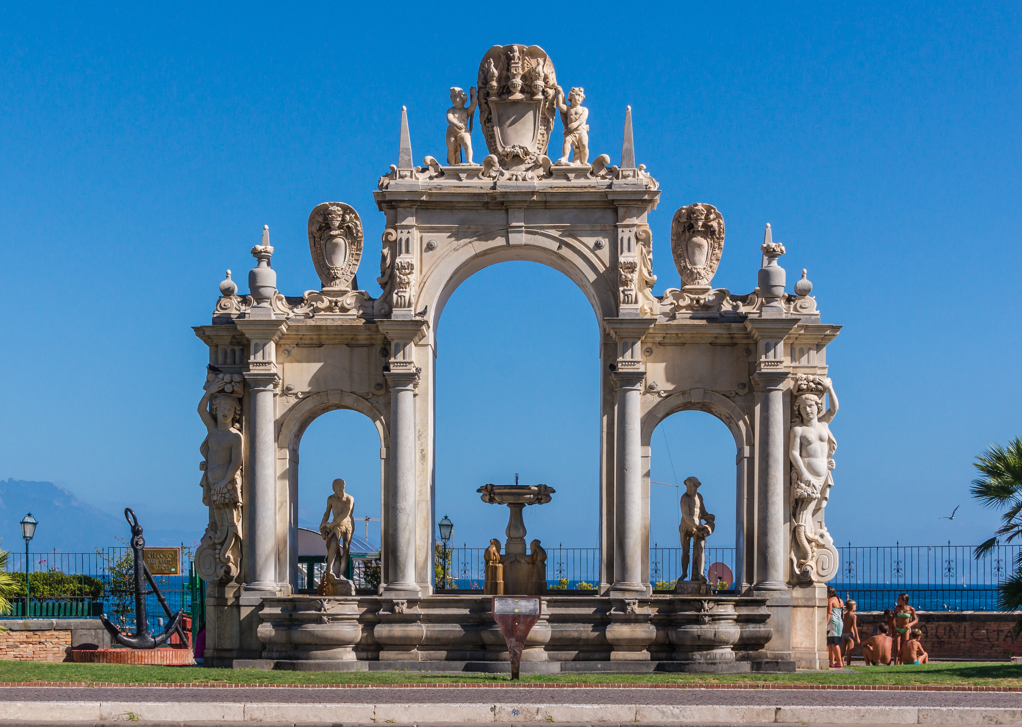 Fontana del Gigante, Naples, Italy.